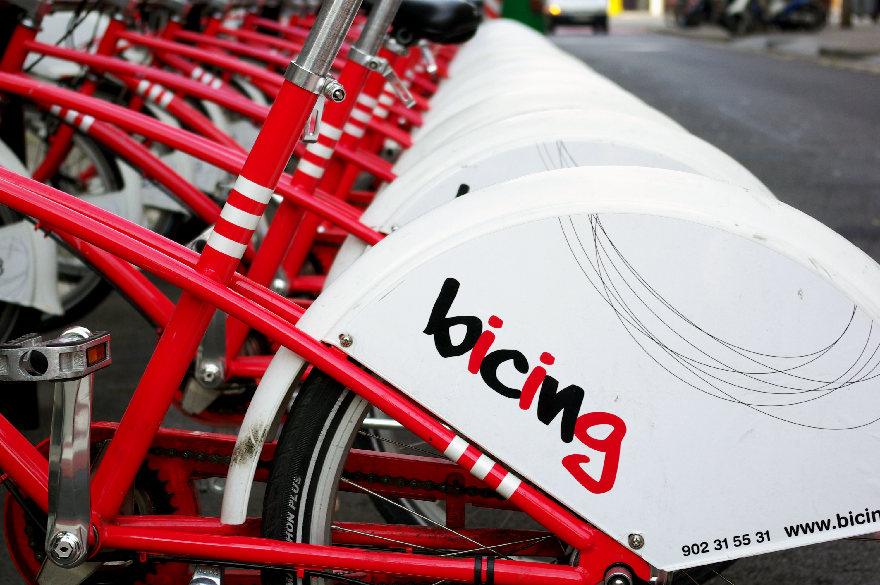 Bicing Barcelona